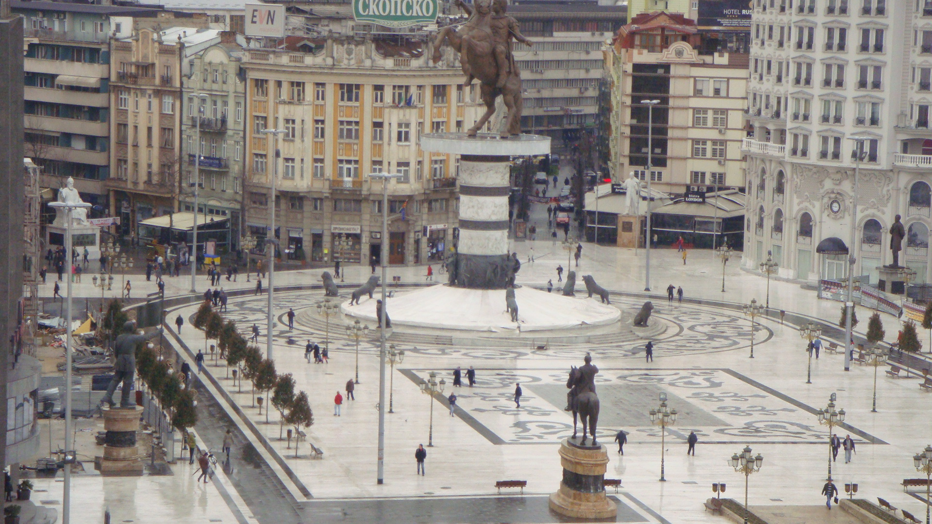 The Square photographed from the building of The State Archives of Republic of Macedonia